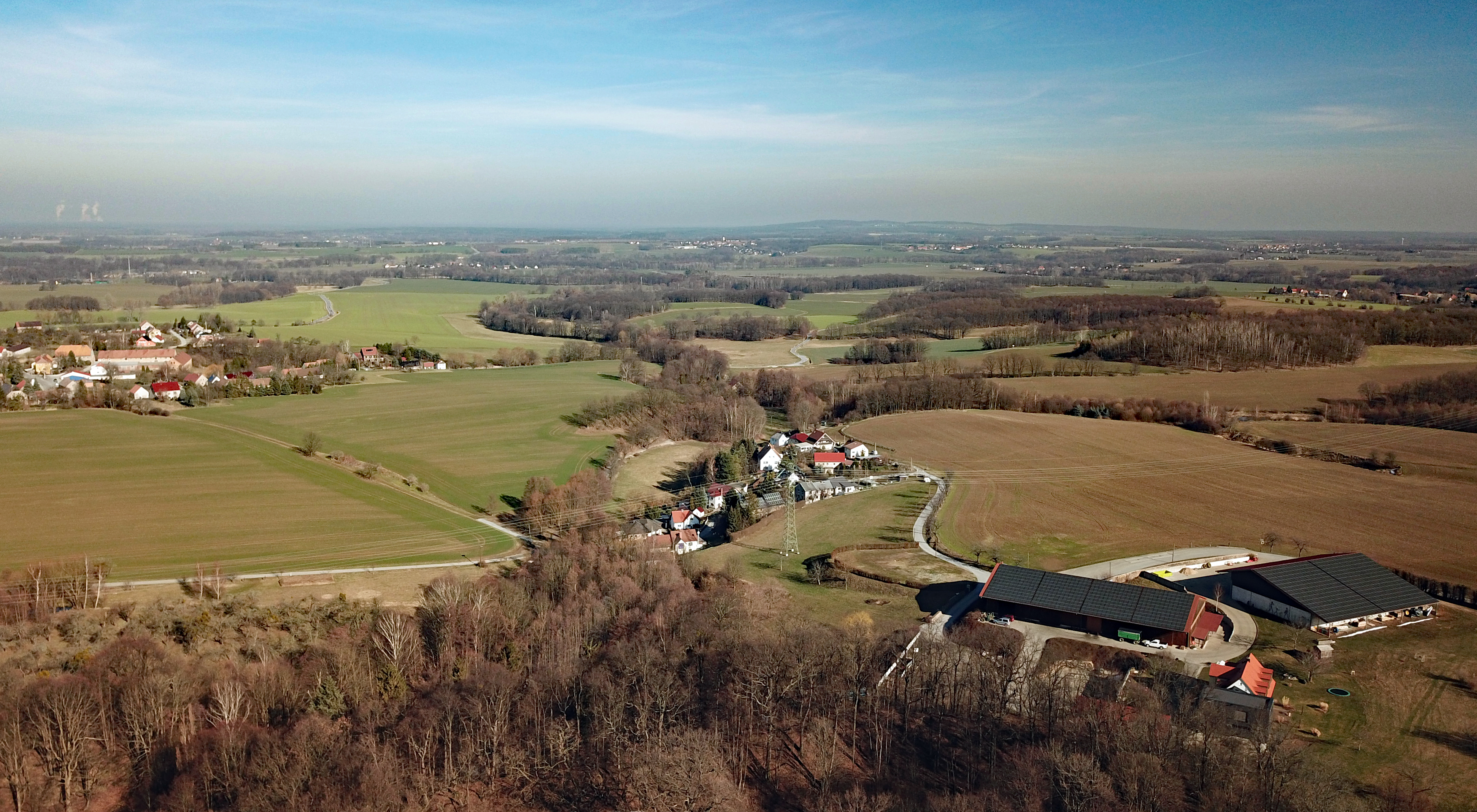 Niethen (Hochkirch, Saxony, Germany) Hornjoserbsce: Powětrowy wobraz Něćina Dieses Foto wurde mit einem Quadcopter innerhalb der RMZ des Flugplatzes EDAB aufgenommen. Der Flugleiter wurde am Aufnahmetag telephonisch über Ort und Zeit informiert und hat zugestimmt. Der Flug erfolgte auf Grundlage der Allgemeinverfügung der Landesdirektion Sachsen zur Erteilung der Betriebserlaubnis für unbemannte Luftfahrtsysteme und Flugmodelle gemäß § 21a LuftVO und Zulassung von Ausnahmen von Betriebsverboten gemäß § 21b LuftVO für den Freistaat Sachsen.